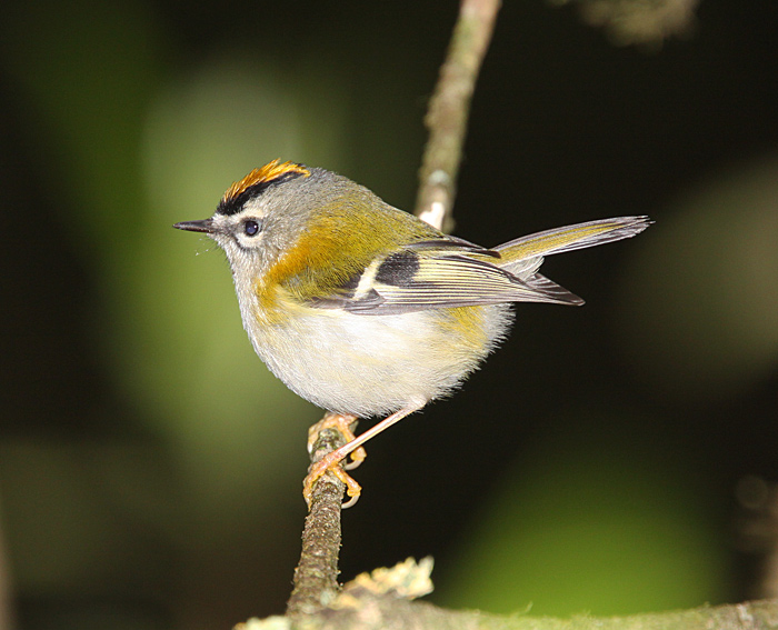 Madeira Firecrest